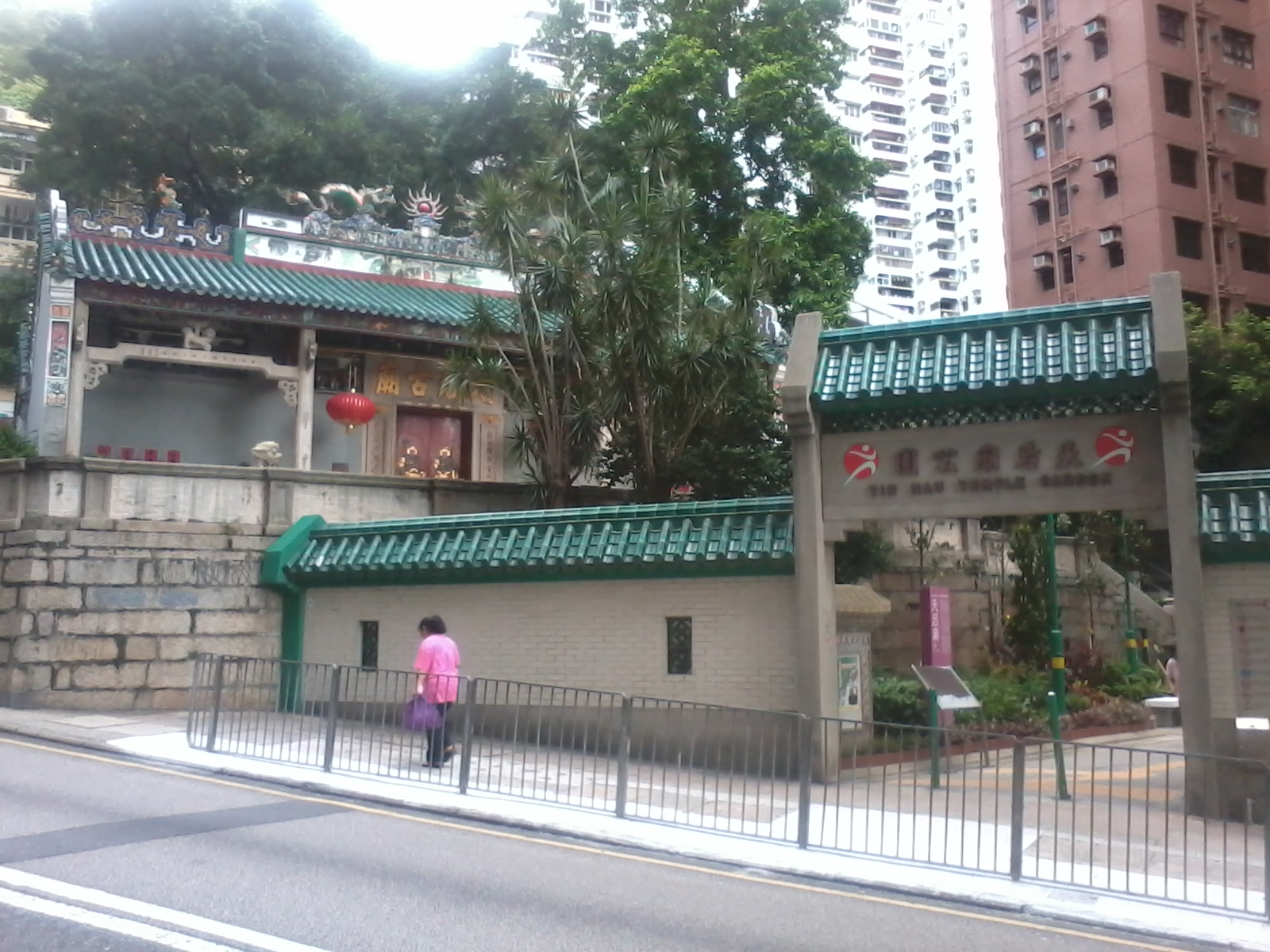 銅鑼灣 天后廟道, Tin Hau Temple Road, Causeway Bay, Hong Kong